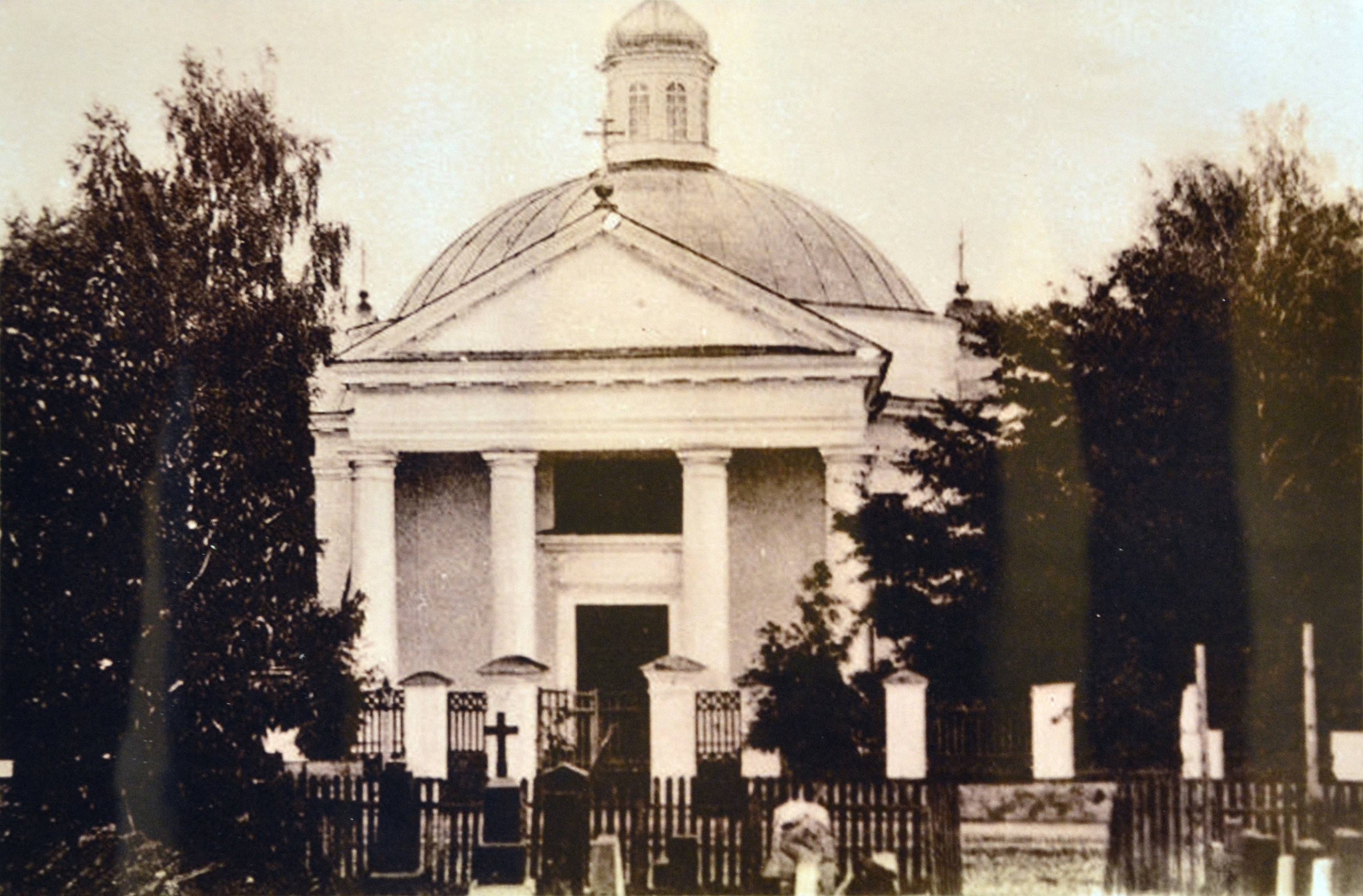 Archangel Michael Cathedral in Lida. Photocopy of picture early XX century. This image needs to have its reflections removed.